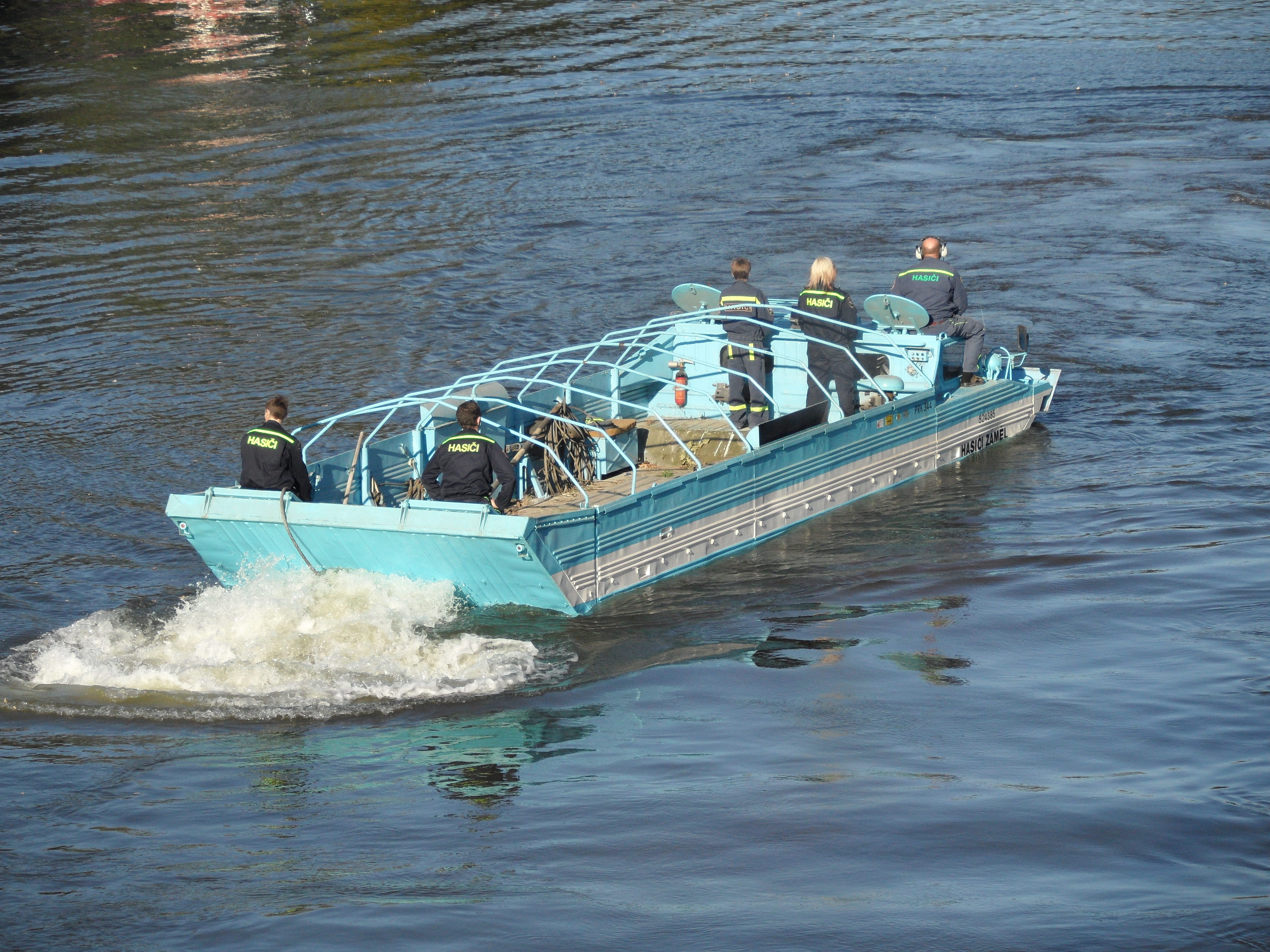 Retro City. Friday: Dynamic Presentations. A08. Fire Fighters from Záměl on Labe (Elbe). Pardubice, Pardubice District, the Czech Republic.